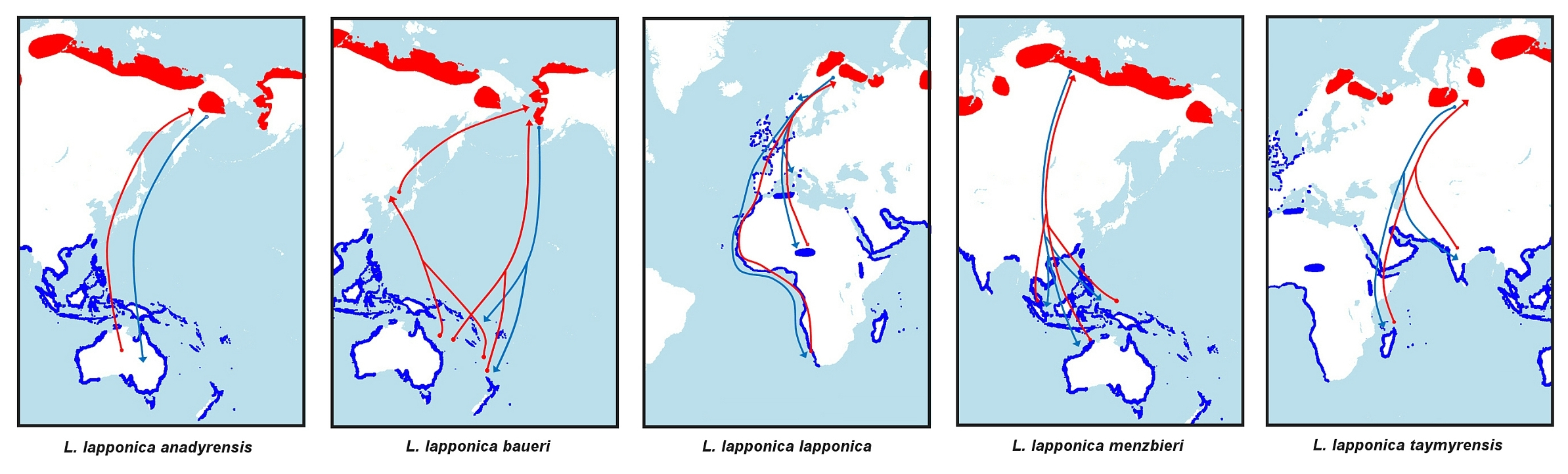 Limosa lapponica migration routes between Northern Hemisphere summer breeding grounds (red) to temperate overwintering areas (blue)